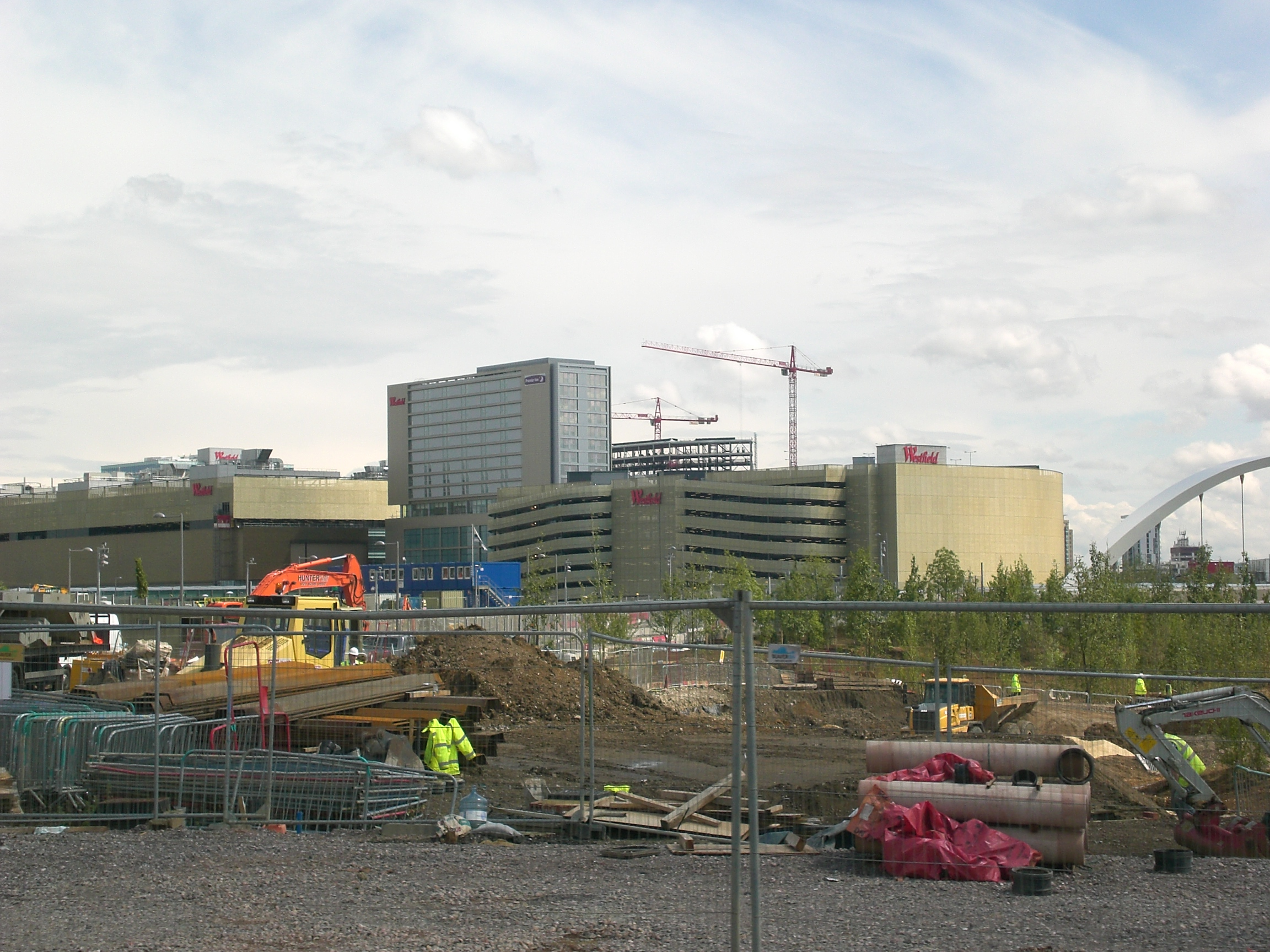 Westfield's Stratford City complex contains more than 300 shops and will create 8,500 jobs.